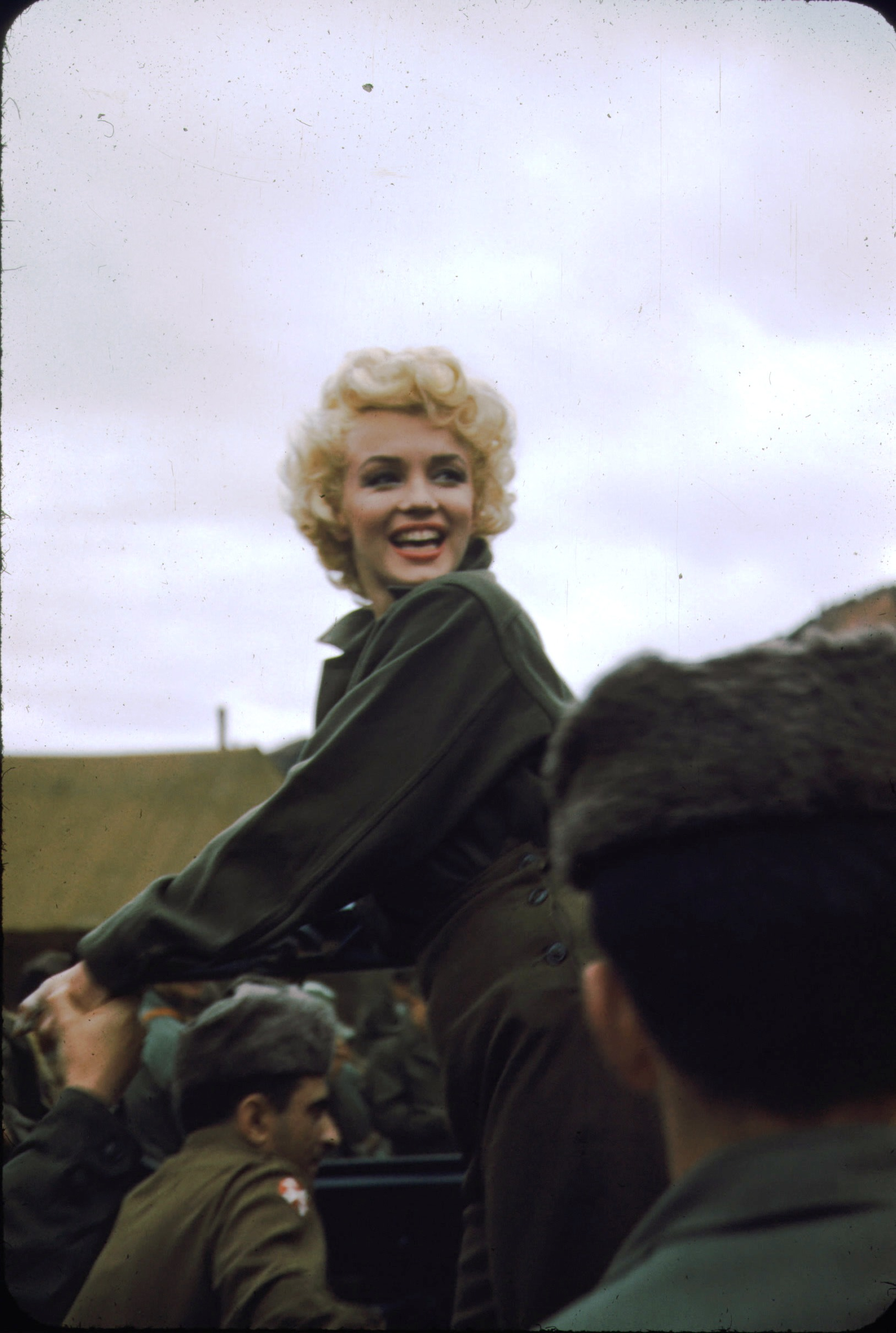 Marilyn Monroe greets the troops during her Korea USO tour. From the Robert H. McKinley Collection (COLL/4802) at the Marine Corps Archives and Special Collections OFFICIAL USMC PHOTOGRAPH